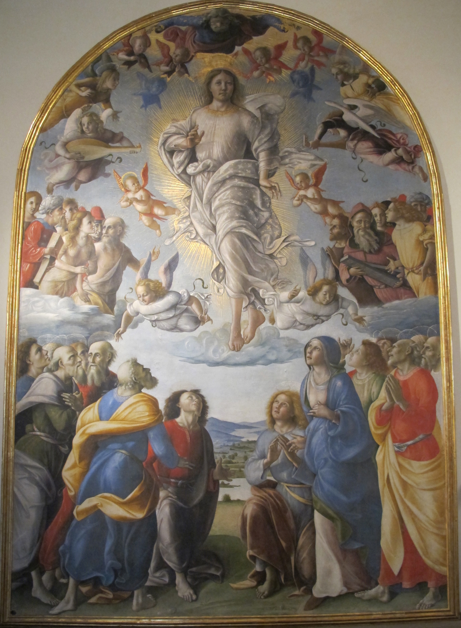 Painting in the National Pinacotheque, Siena